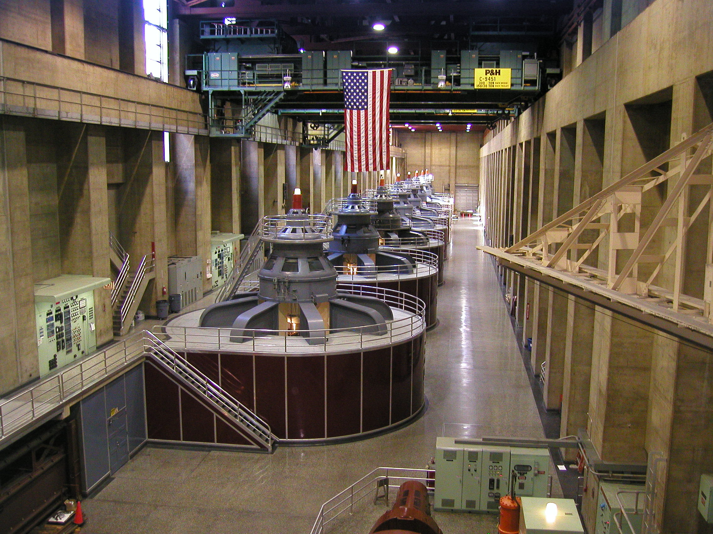 Inside the Hooverdam